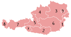 Bundesländer (states) of Austria.